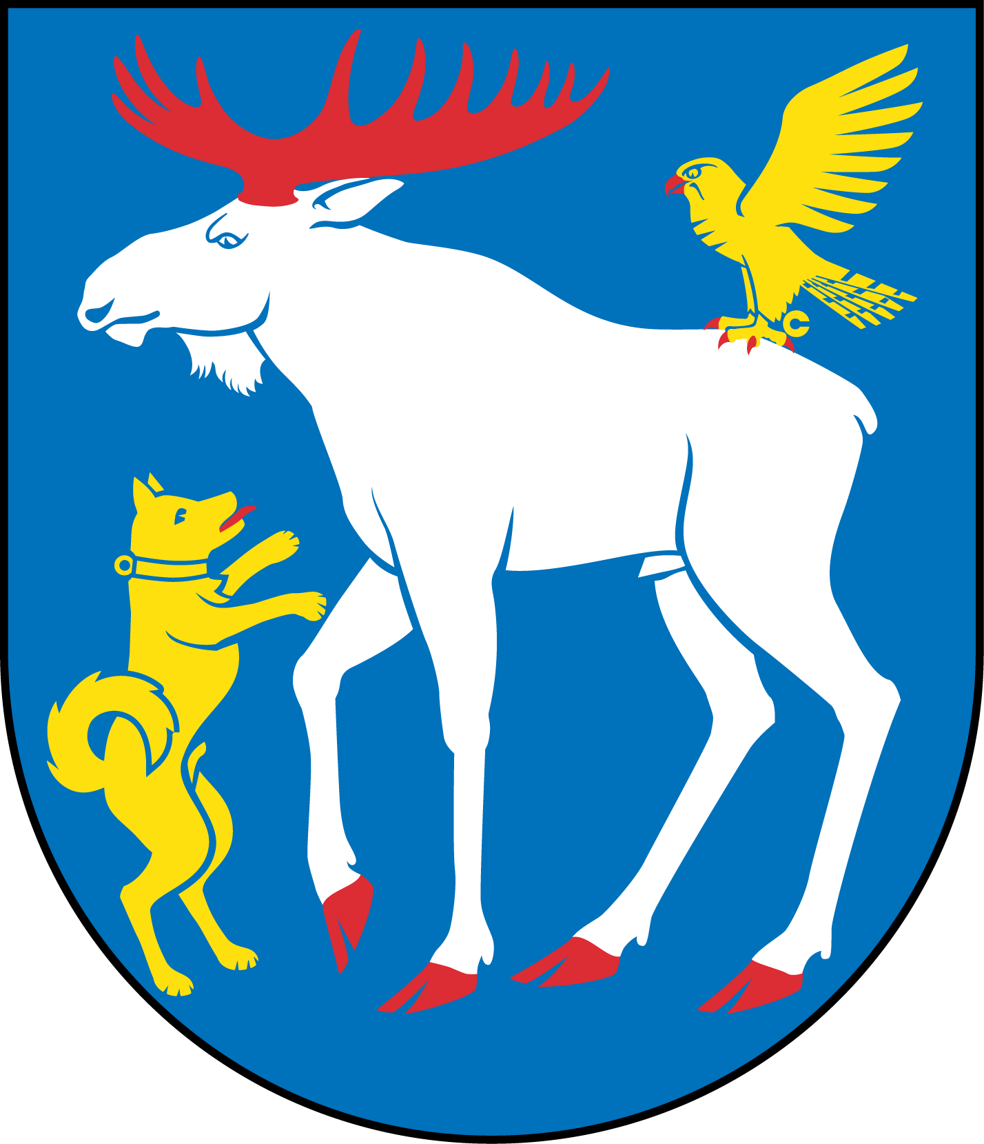 Coat of arms of the province of Jämtland, Sweden. Painted by Vladimir A. Sagerlund when he was the heraldic artist at the National Archives of Sweden (Riksarkivet). This representation of a coat of arms is potentially different from the one used by the armiger (municipality or organisation) in question. = ⇑“Sable, a lionrampant or” This coat of arms was drawn based on its blazon which – being a written description – is free from copyright. Any illustration conforming with the blazon of the arms is considered to be heraldically correct. Thus several different artistic interpretations of the same coat of arms can exist. The design officially used by the armiger is likely protected by copyright, in which case it cannot be used here.Individual representations of a coat of arms, drawn from a blazon, may have a copyright belonging to the artist, but are not necessarily derivative works. Further information: Commons:Coats of arms and Template:Coa blazon